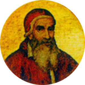 Portait of Pope Urban VII in the Basilica of Saint Paul Outside the Walls, Rome